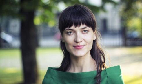 A photo of Radvilė Morkūnaitė.